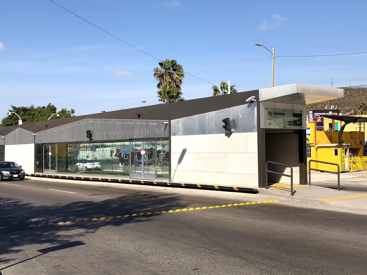 Amistad station of the SITT B.R.T. system in Tijuana